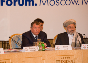 Second Vice-President of Afghanistan Karim Khalili and Deputy Prime Minister of Russia Igor Sechin, May 14, 2009, Moscow, The Russia-Afghanistan Forum